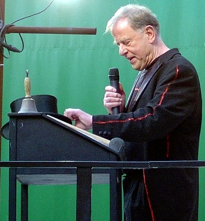 Claus Peymann during an auction in the courtyard of the Berliner Ensemble.